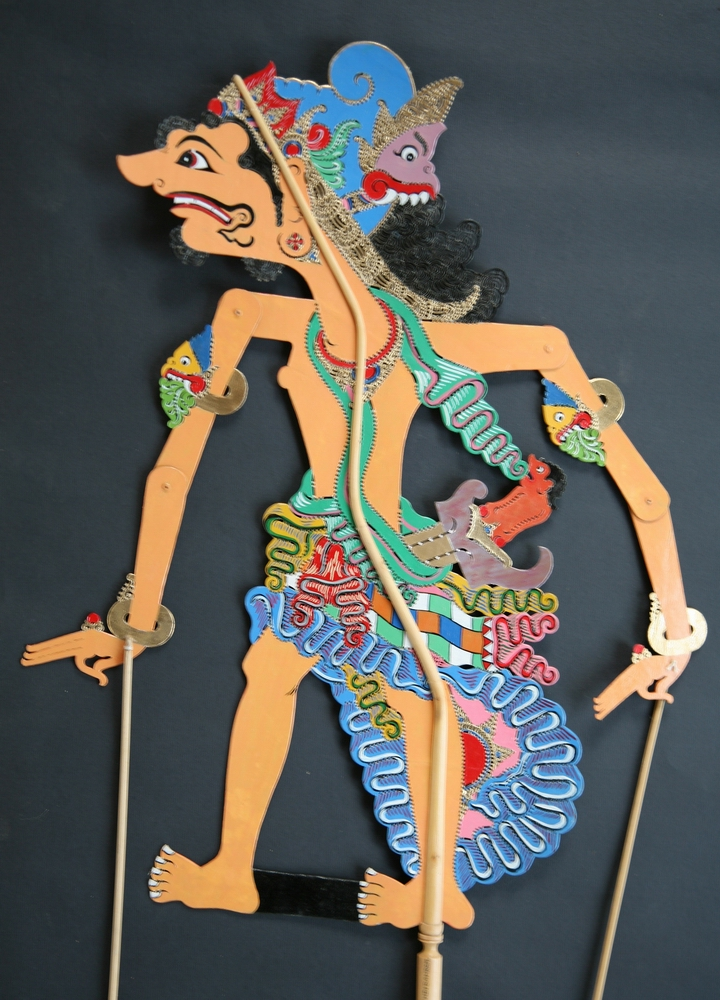 Raja Bahri Bahram, wayang kulit figure from the wayang shadow play Serat Menak Sasak